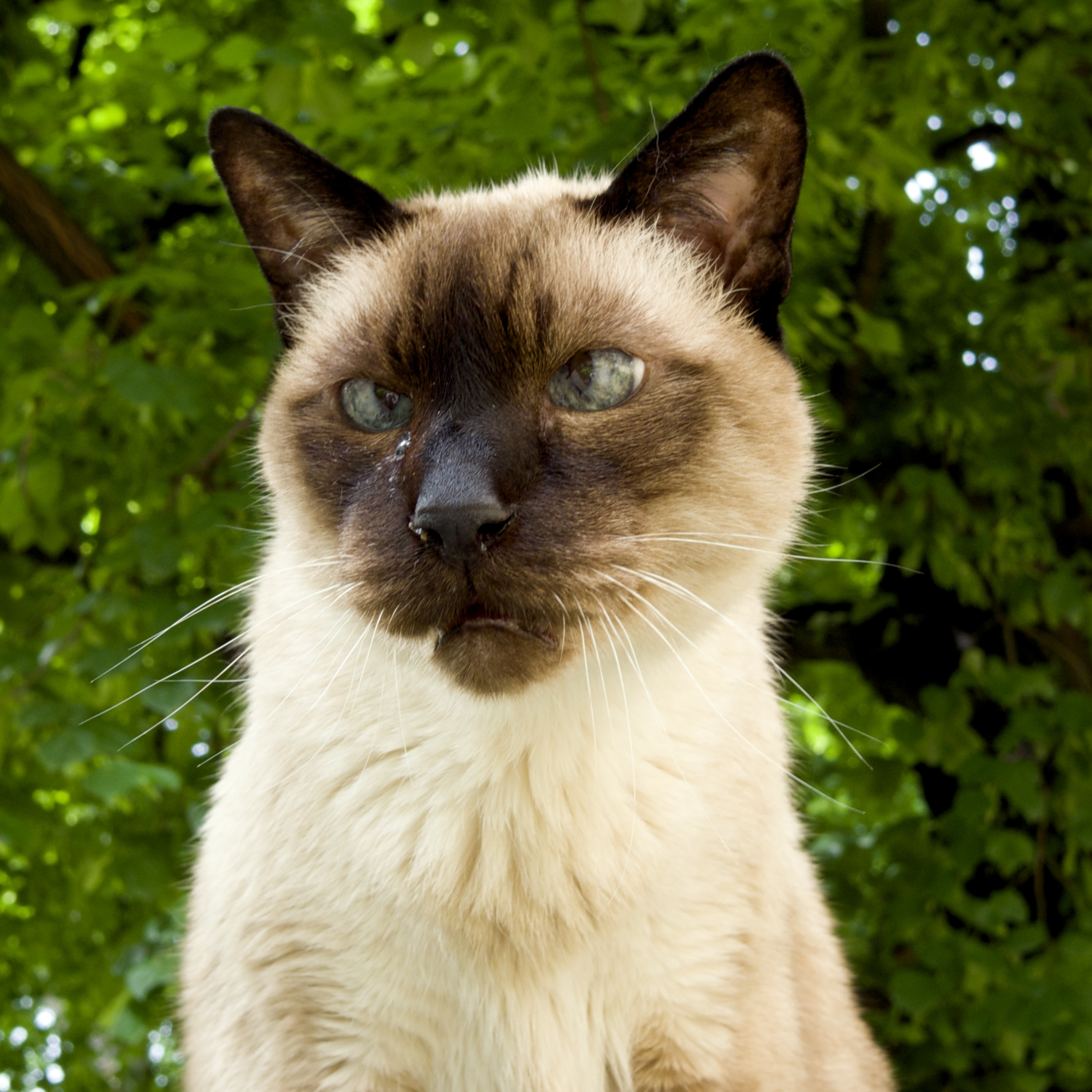 Traditional type Siamese (Thai cat) with crossed eyes